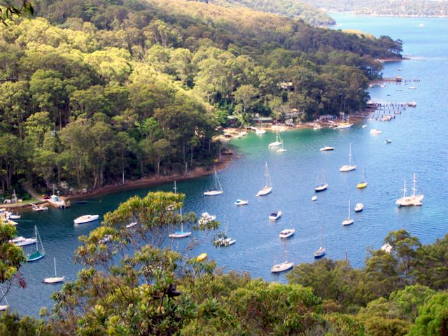 Lovett Bay taken from the cliffs above at Ku-ring-gai Chase National Park, Australia